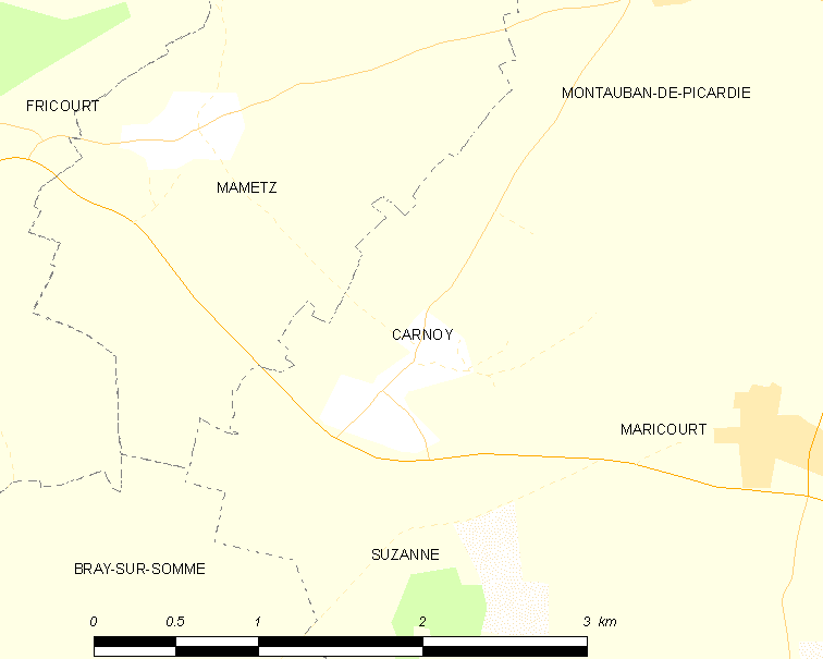 Map of French municipality Carnoy